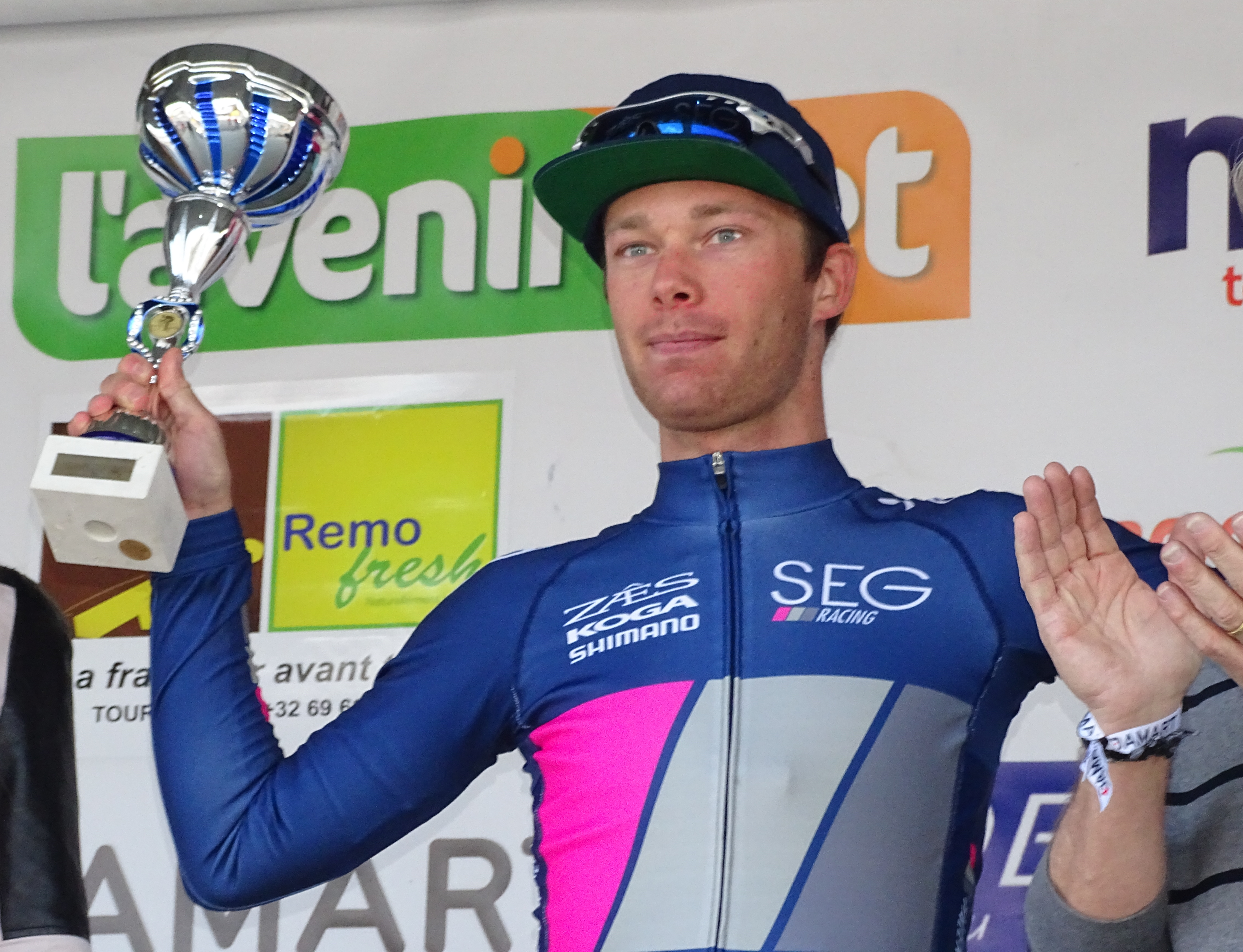 Triptyque des Monts et Châteaux 2015 Depicted person: Steven Lammertink Depicted team: SEG Racing